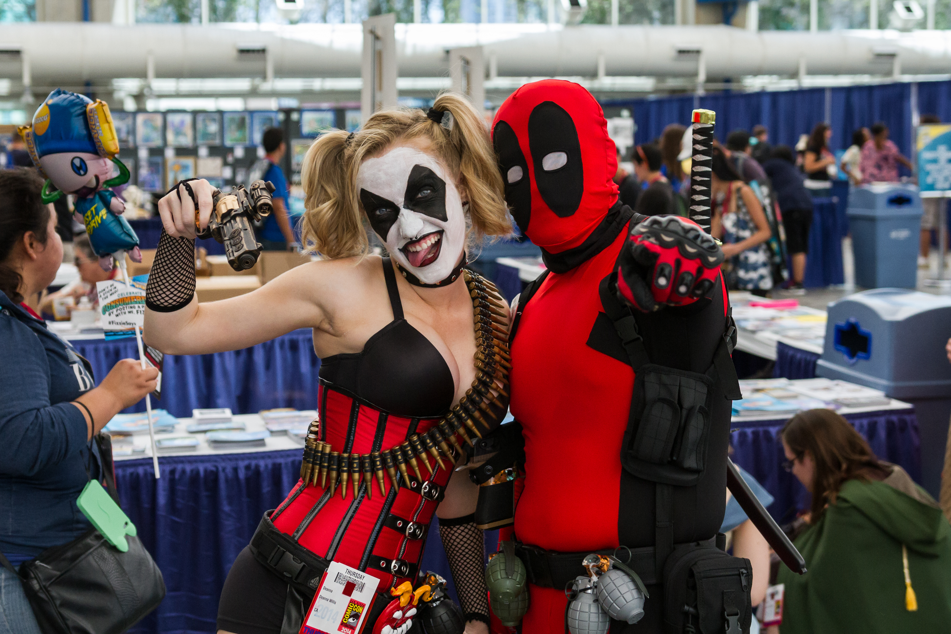 Cosplay at San Diego Comic-Con (SDCC 2014).